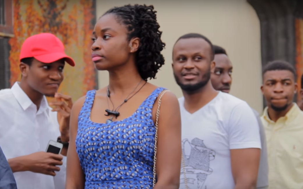 Uzoamaka Aniunoh is Cynthia with mates in MTV Shuja